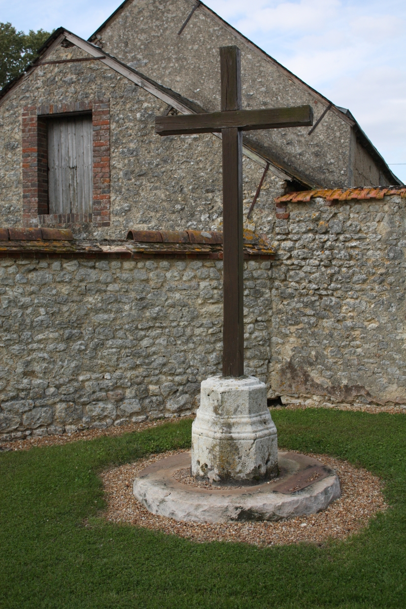 Saint-Évroult's christian cross